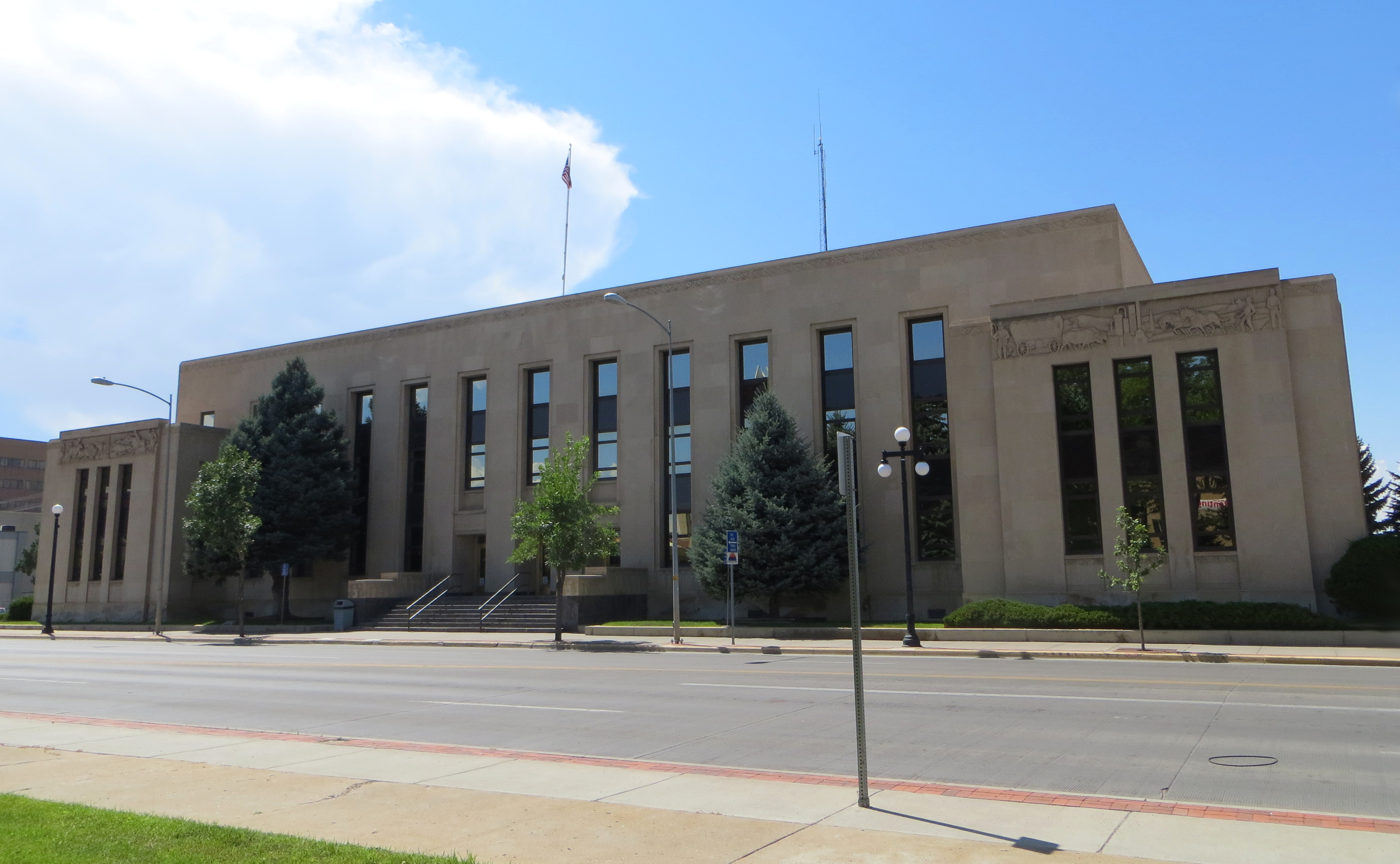 The Natrona County Courthouse at 200 N. Center in Casper, Wyoming. It was built in 1940-1941 and is a well-preserved example of period Art Deco architecture. Today, it houses the Commissioners, Assessor, Attorney, Clerk, Coroner, Treasurer and the Planning & Development department. Other county departments are located in the Hall of Justice linked to the rear of the courthouse and in the Townsend Justice Center a half block up Center Street.